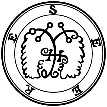 Seere seal, THE BOOK OF THE GOETIA OF SOLOMON THE KING (1904)